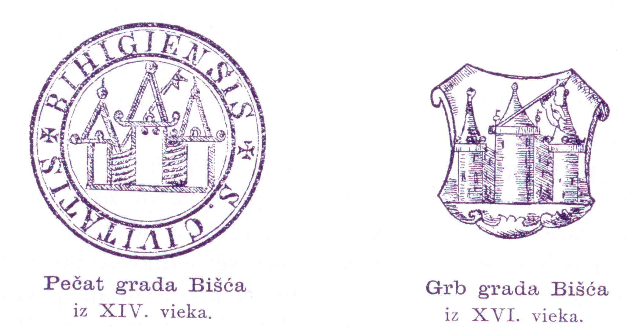 The Seal and Armorial Bearings of Bihać town froč XIV century